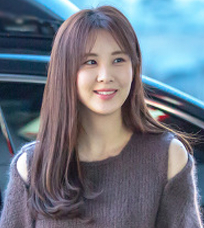 Seohyun at Incheon International Airport in February 10, 2019.